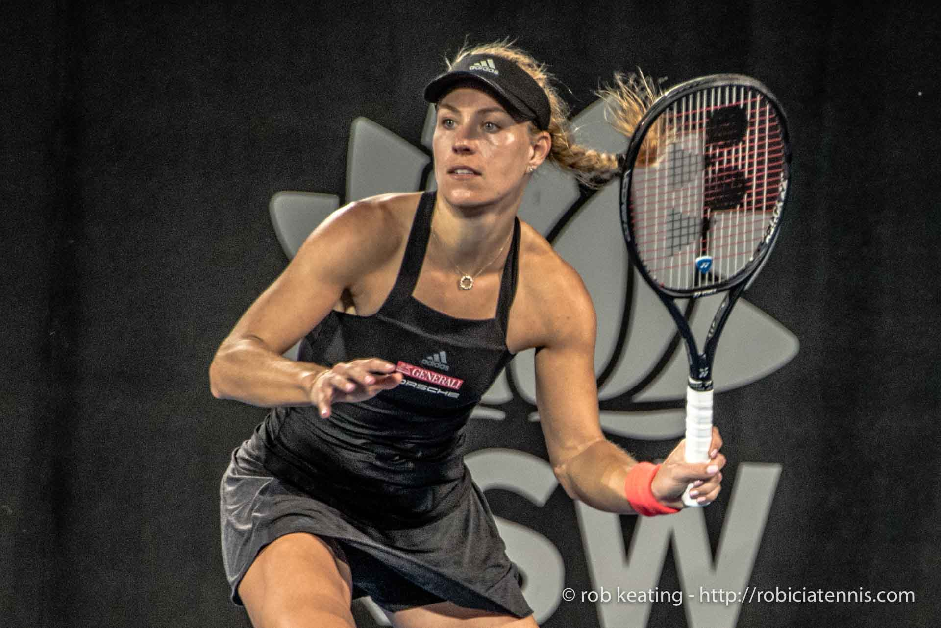 Sydney, Australia - 8 January 2018: Angelique Kerber hits a forehand in her match against Camila Giorgi during their round two encounter at the Sydney International tennis. (Photo by Rob Keating/robiciatennis.com)